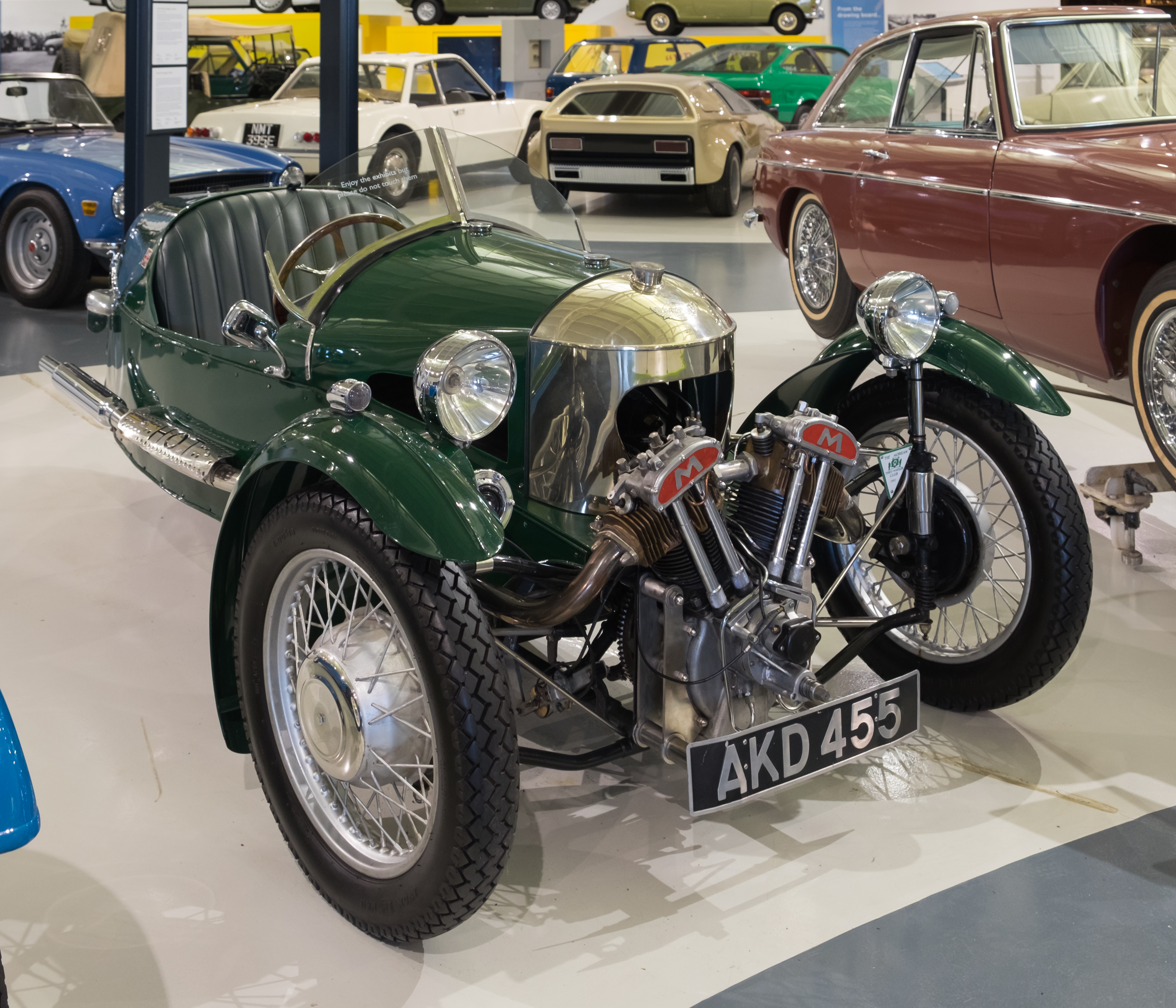 A 1935 Morgan Super Sports. This car, with registration mark AKD 455, is now kept at the British Motor Museum, Gaydon, UK.